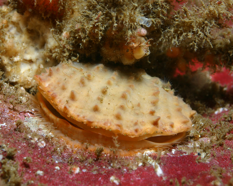 What looks a young rock scallop Crassedoma giganteum